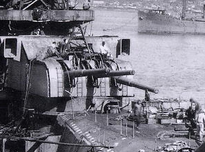 Photograph showing aft triple 155-mm gun turret, on IJN battleship Yamato under fitting-out works.